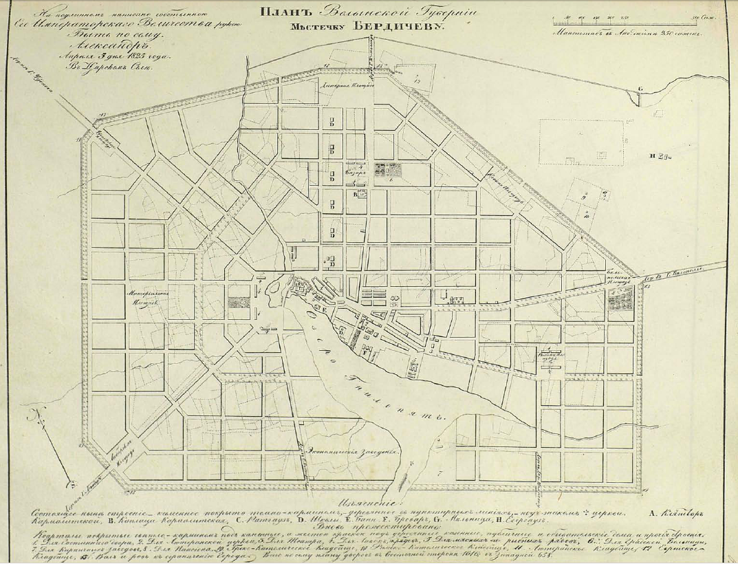 Plan of Berdychiv city. 1825